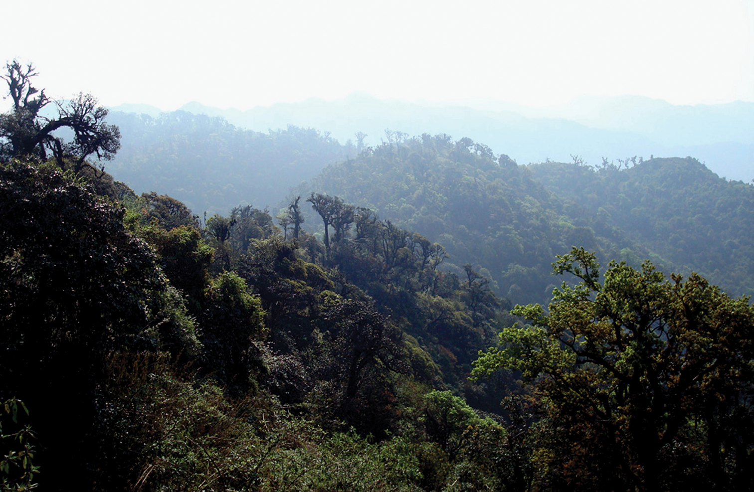 Digital photograph of landscape at Fenshuiling, Jinping County, Yunnan Province, China, ca. 2060 m; locality for Chydaeus andrewsi kumei Ito.